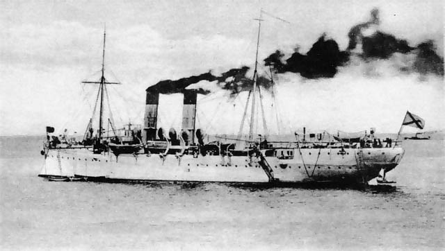 Russian Imperial Navy, minelayer Amur (1st), 1898-1904